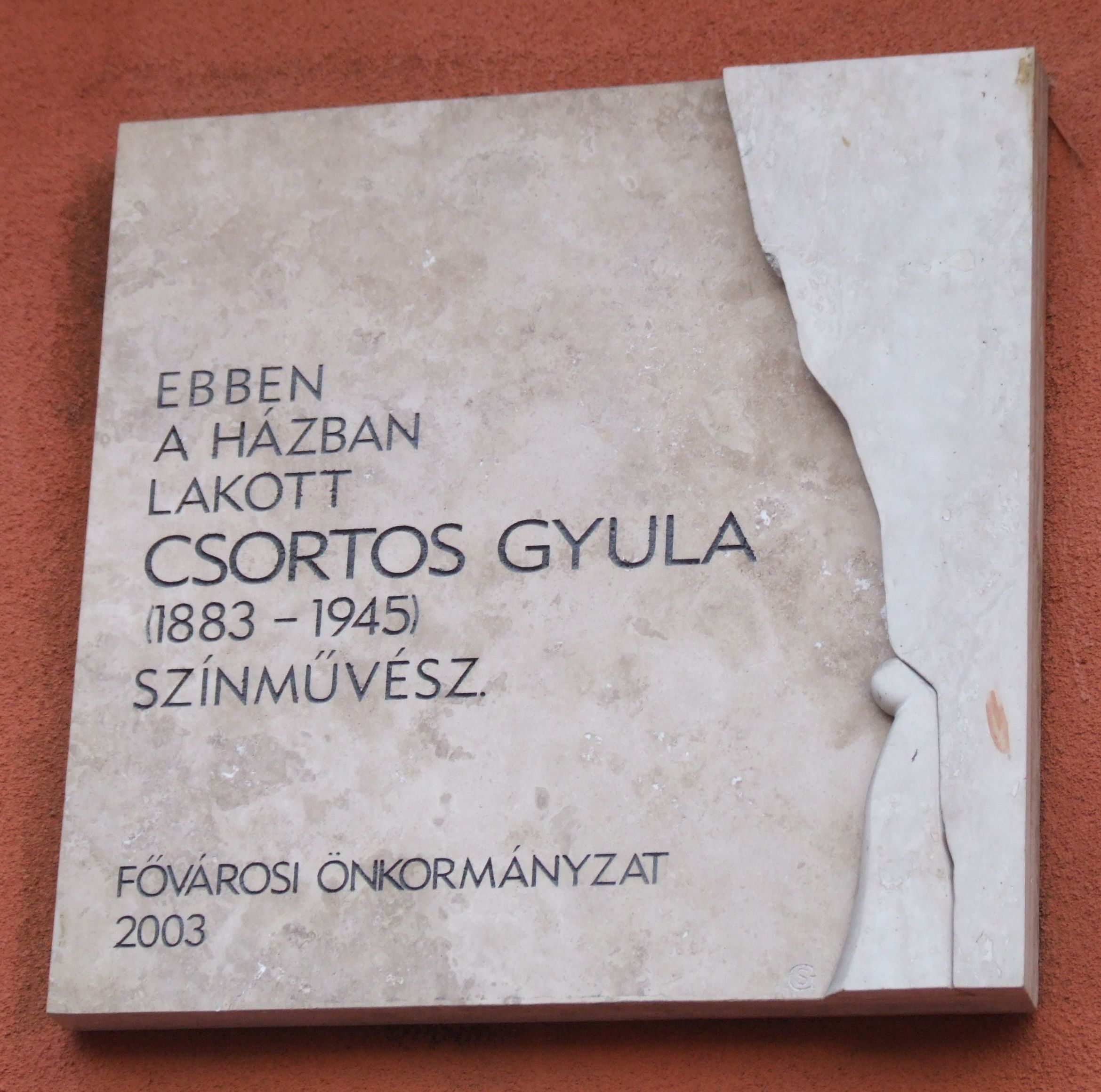 Commemorative plaque of Gyula Csortos in Budapest District I, Attila Street No 117